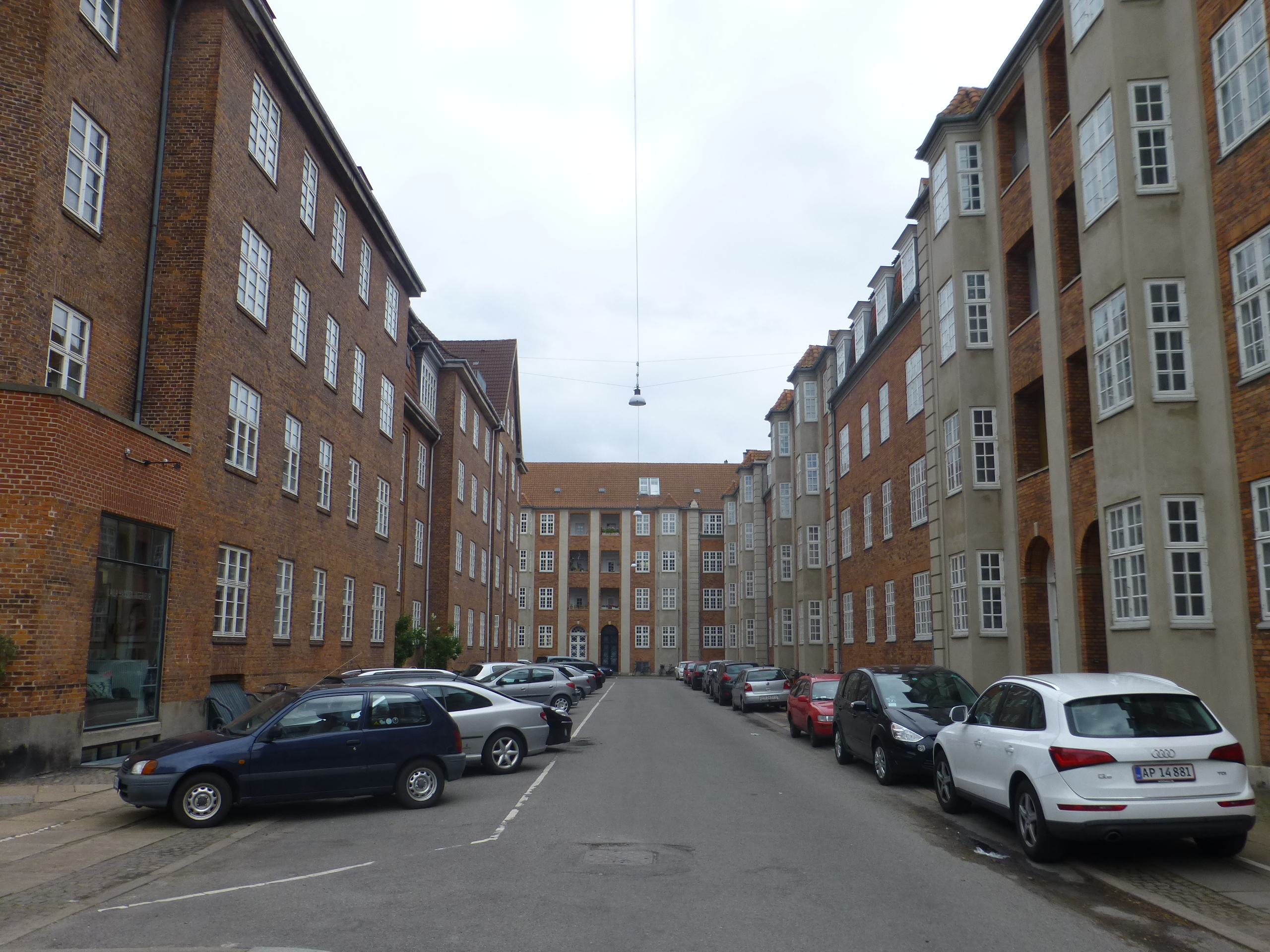 The street Kanslergade in Østerbro in Copenhagen.